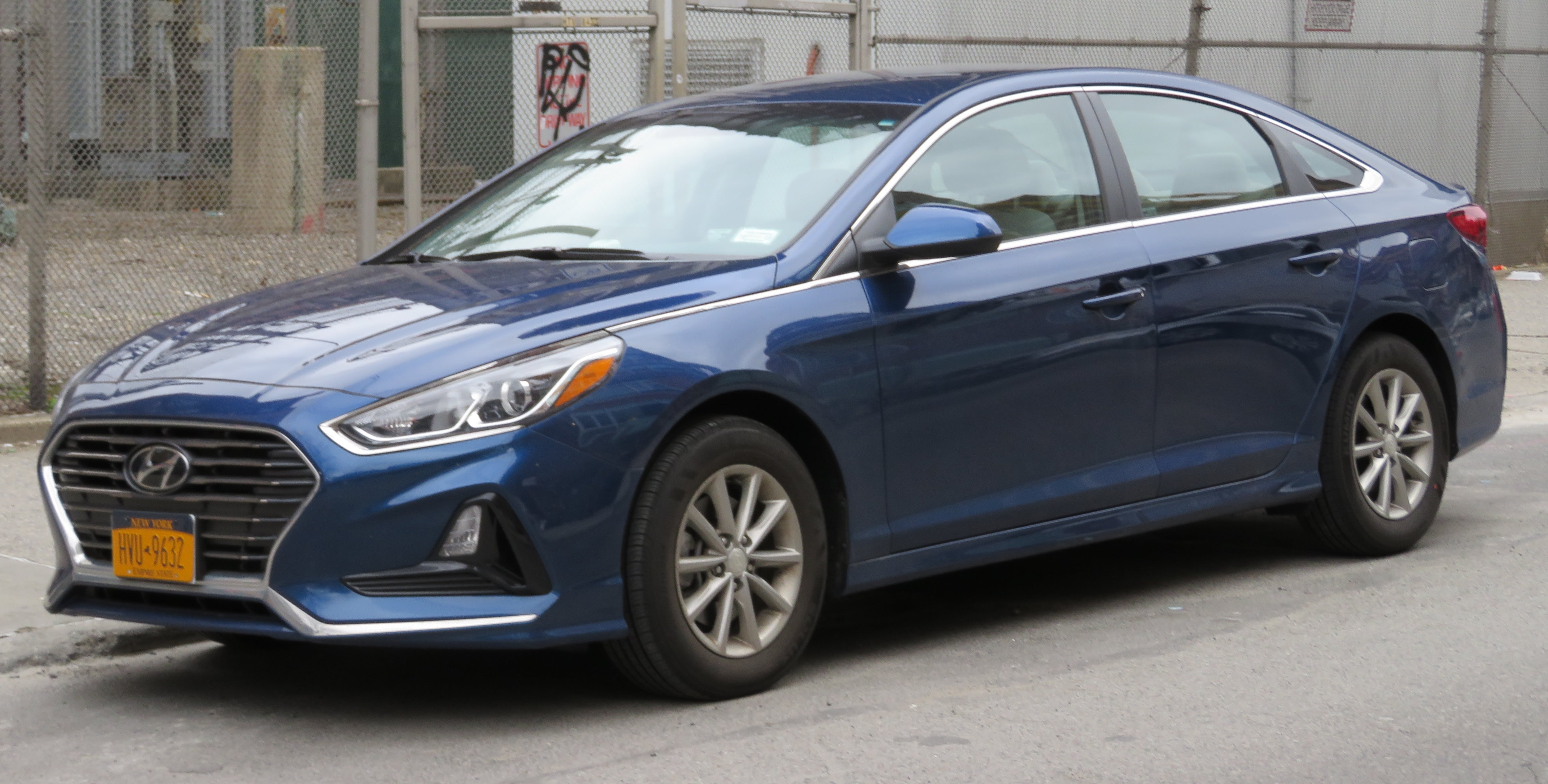 Spotted in Flushing, New York.